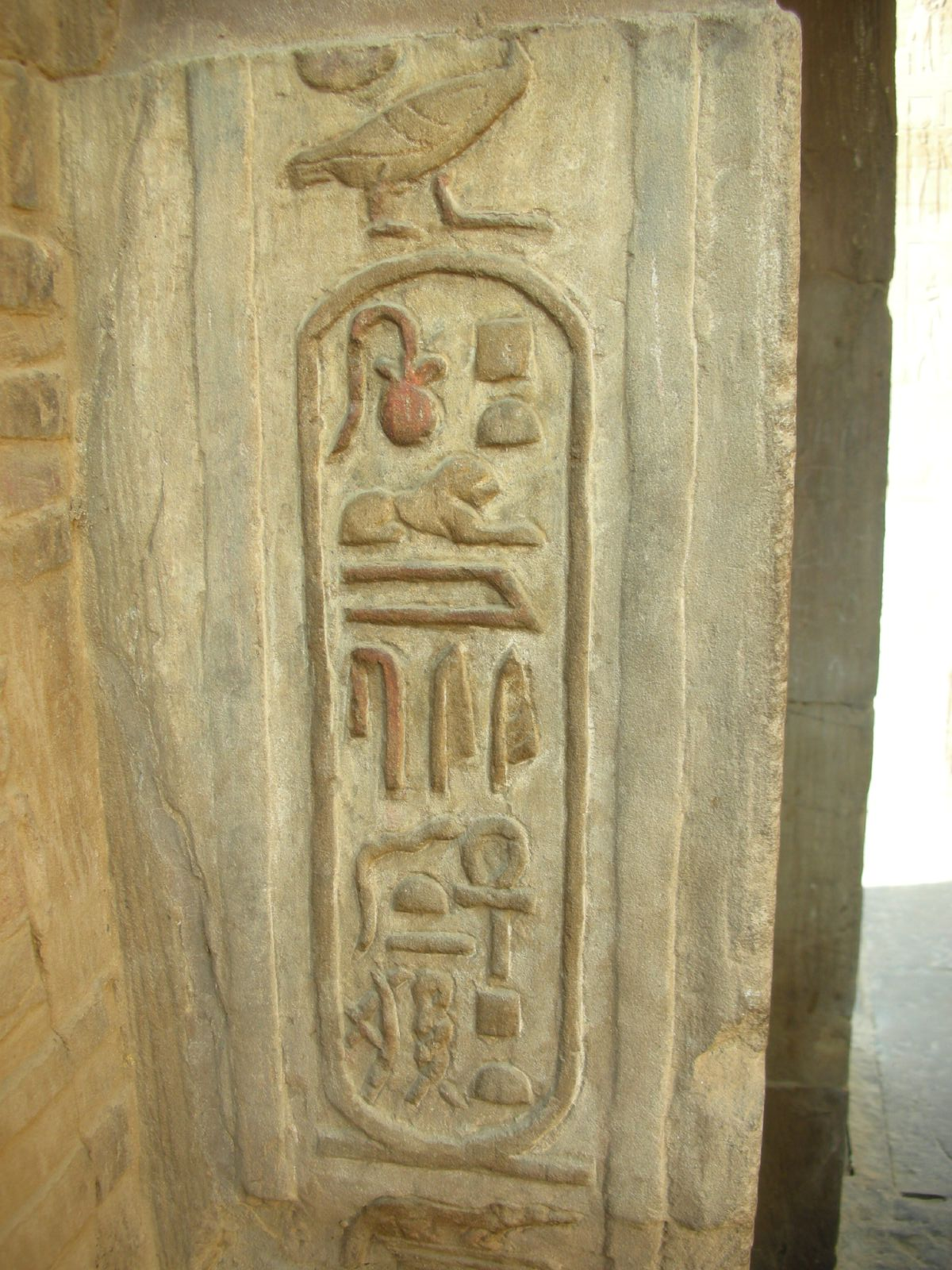 Cartouche of Ptolemaic pharaoh.